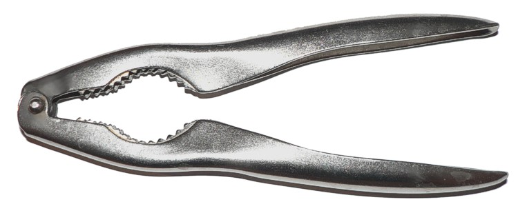 A nutcracker.